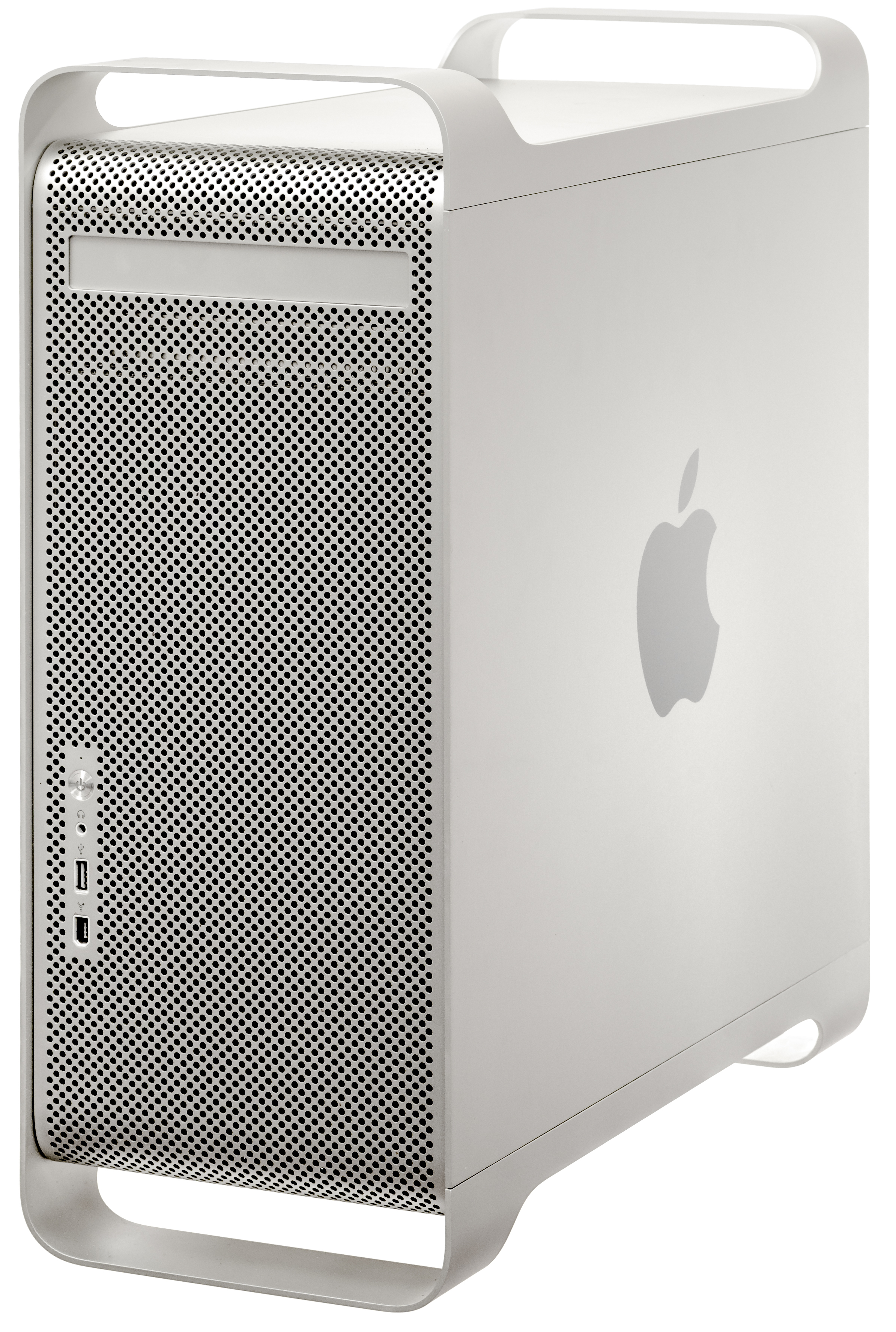 Apple Power Macintosh G5 Dual Core (2.3 GHz) Late 2005 – M9591LL/A.